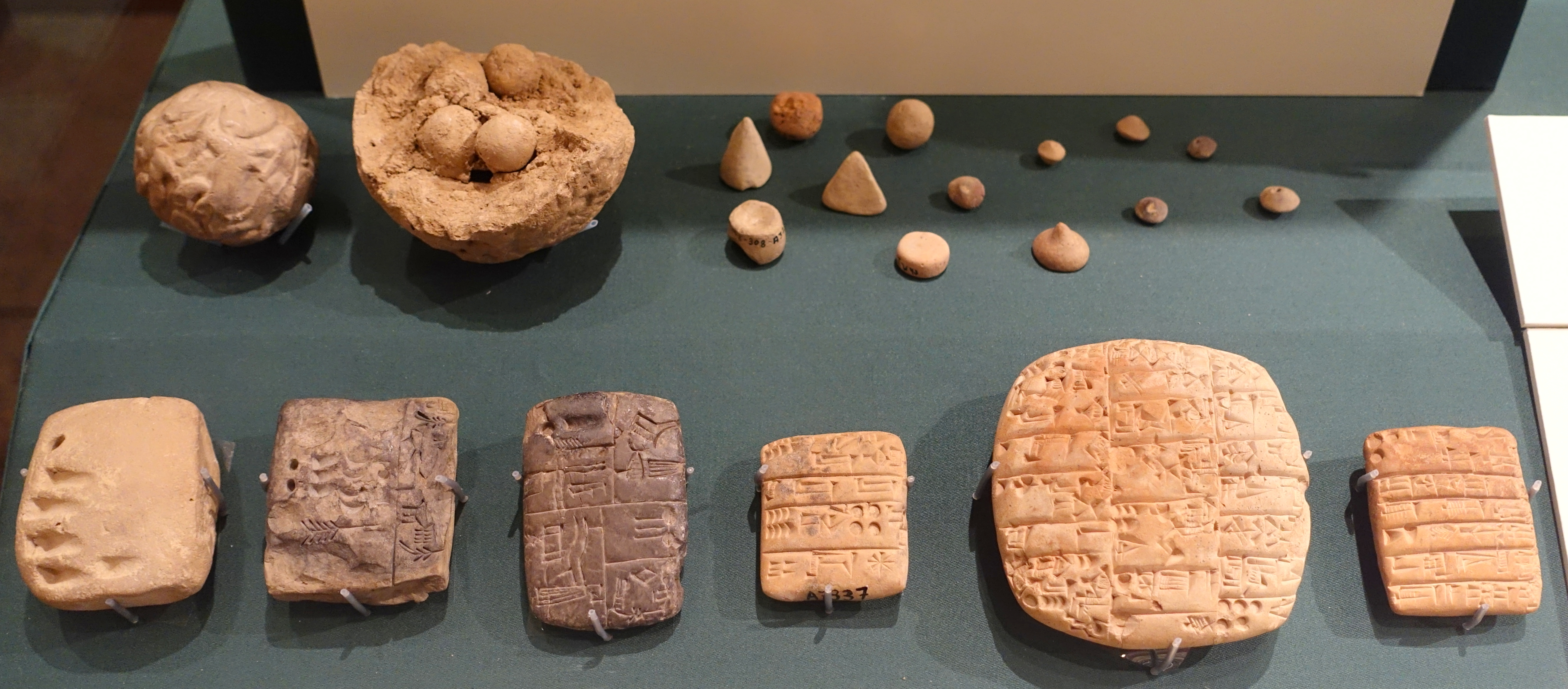 Exhibit in the Oriental Institute Museum, University of Chicago, Chicago, Illinois, USA. This work is old enough so that it is in the public domain.